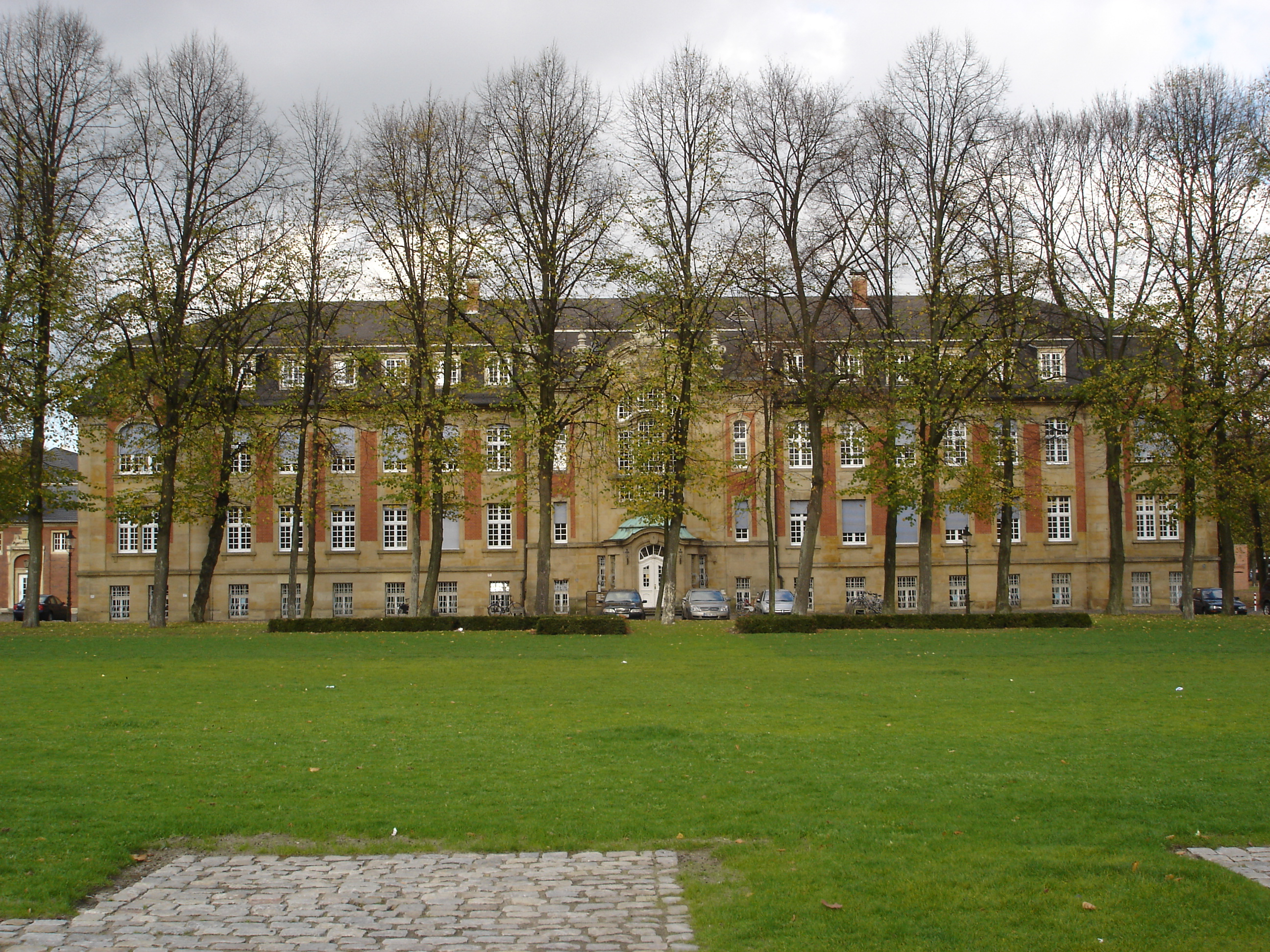 The "Marstall North" of the castle of the city of Münster (Westphalia), Germany